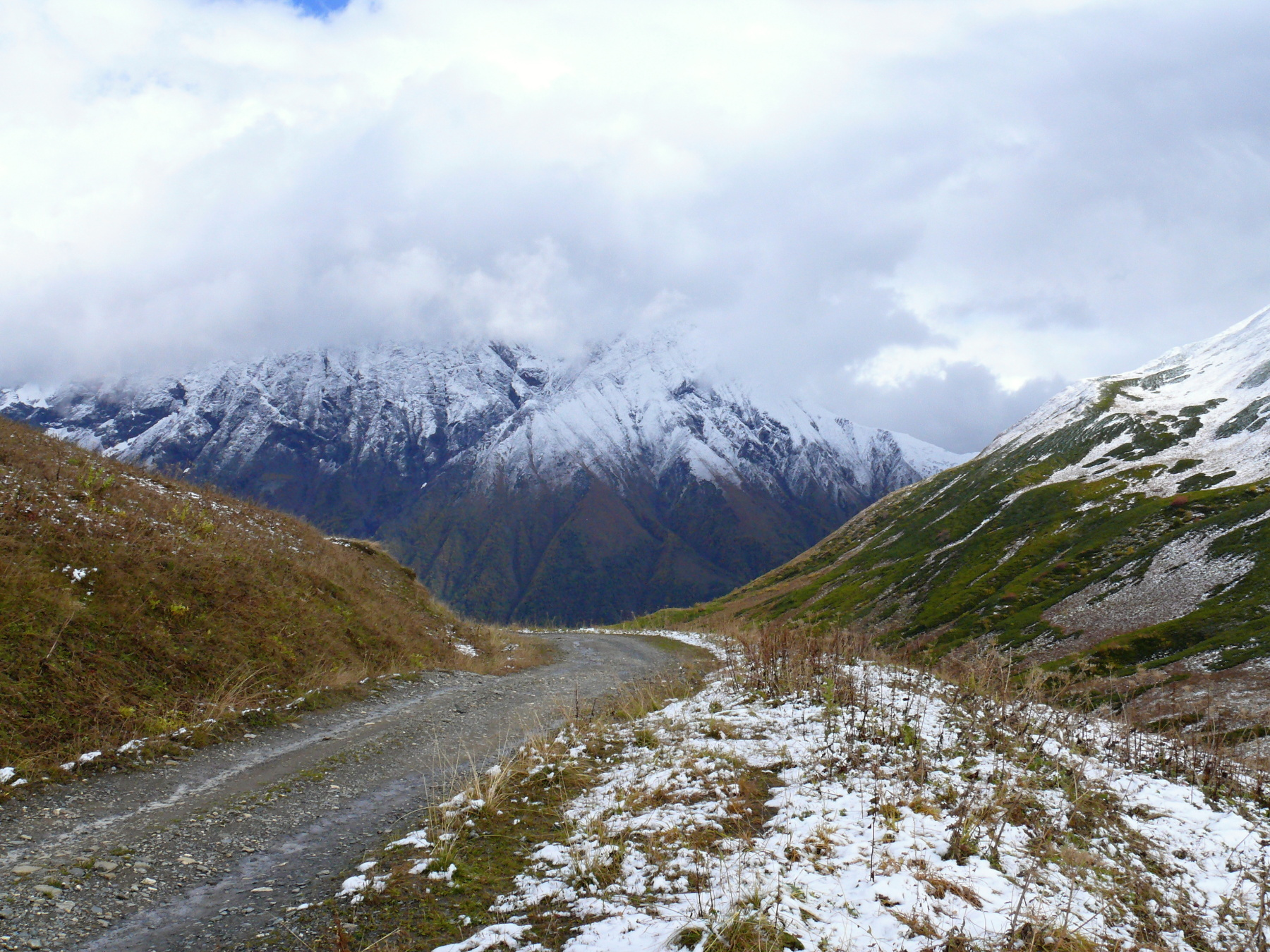 View to the east from Zagari pass. Mountains Ailama (left) and Curungol (centre) seen partially covered by clouds.